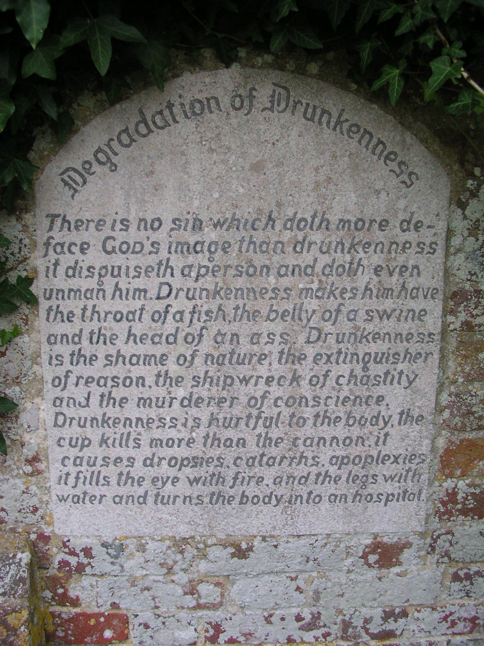 Inscription against drunkenness in the old rectory wall at Kirdford, West Sussex, England.